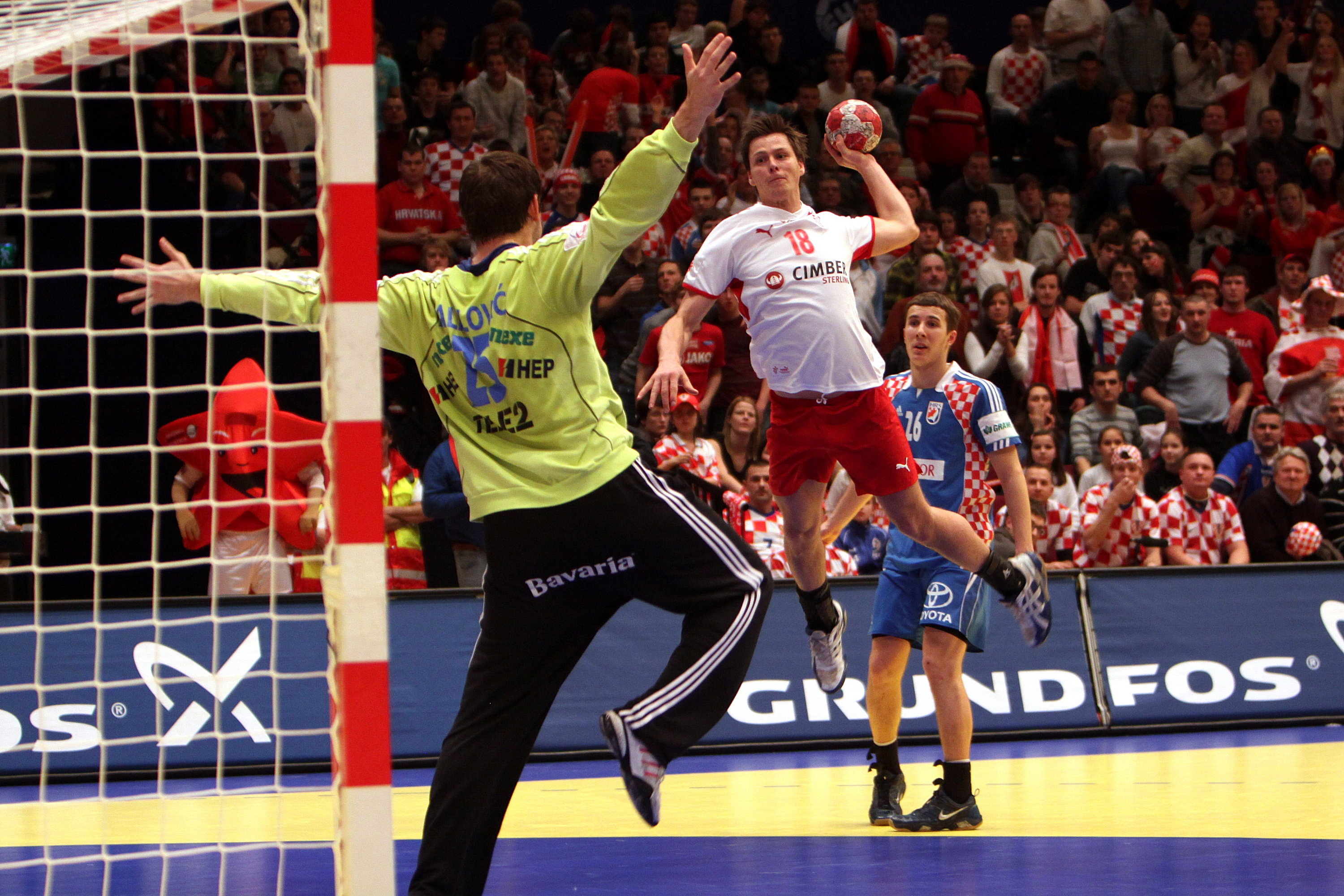 2010 European Men's Handball Championship Group I: Croatia vs Denmark 27:23 — Hans Lindberg (Denmark national handball team) defeats Goalkeeper Mirko Alilović (Croatia national handball team). Manuel Štrlek cannot intervene.